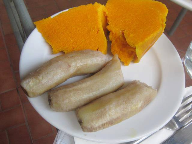 Koki banane poyo - Bandrefam-Cameroun